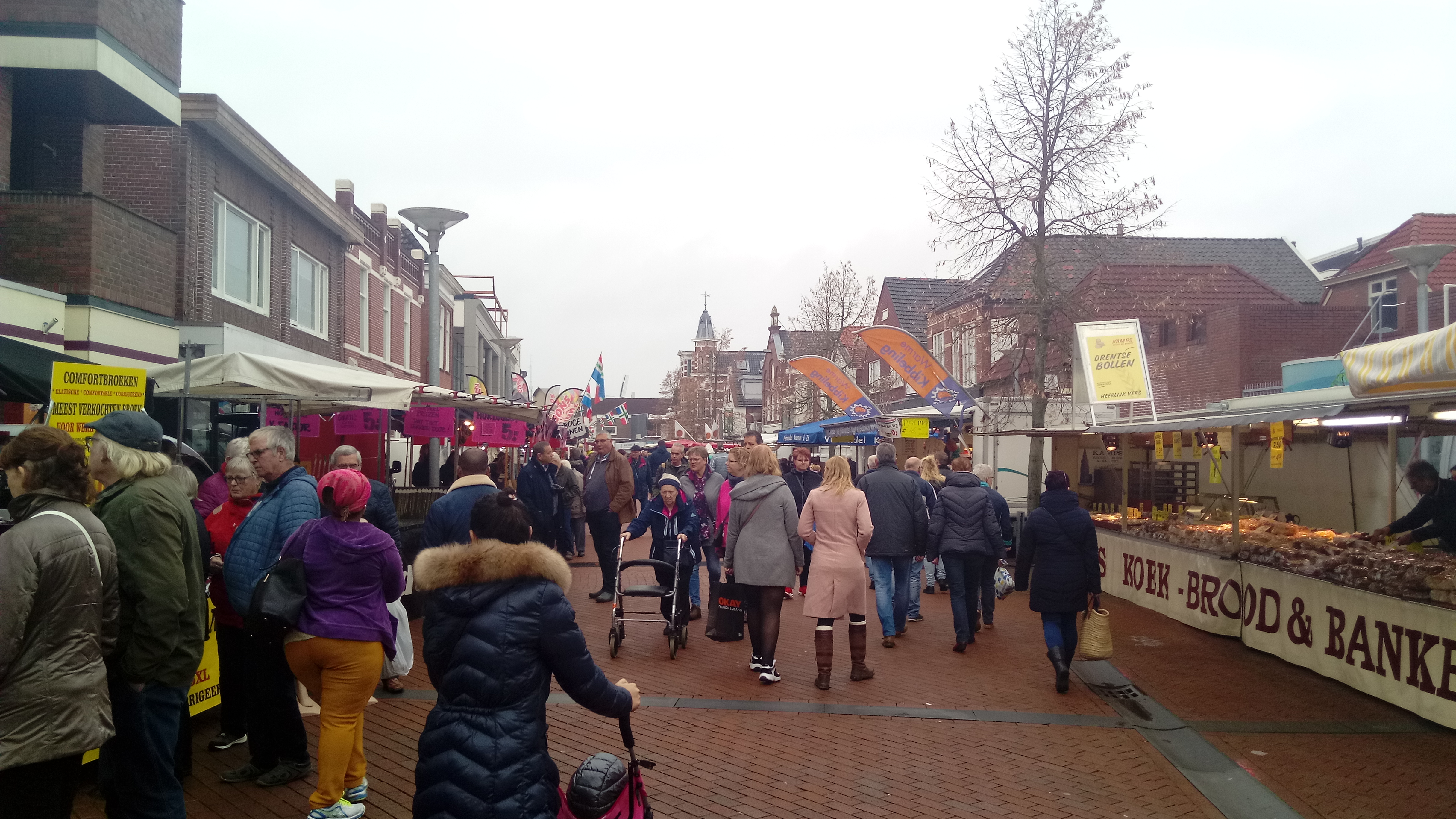 A local annual market for All Saints' Day known as the "Adrillen" or "Allerheiligenmarkt" in the Groninger city of Winschoten, Oldambt.